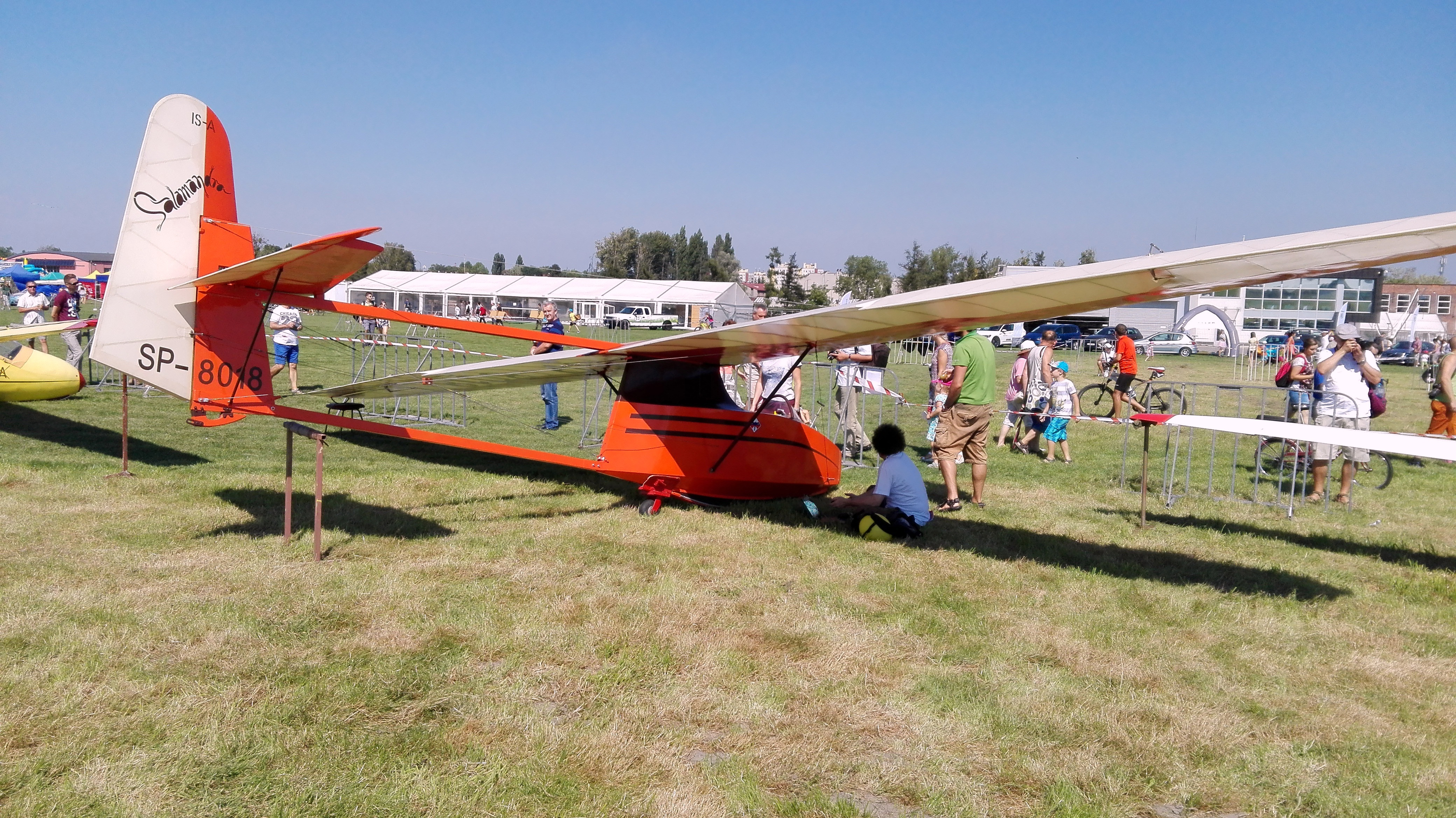 IS-A Salamandra